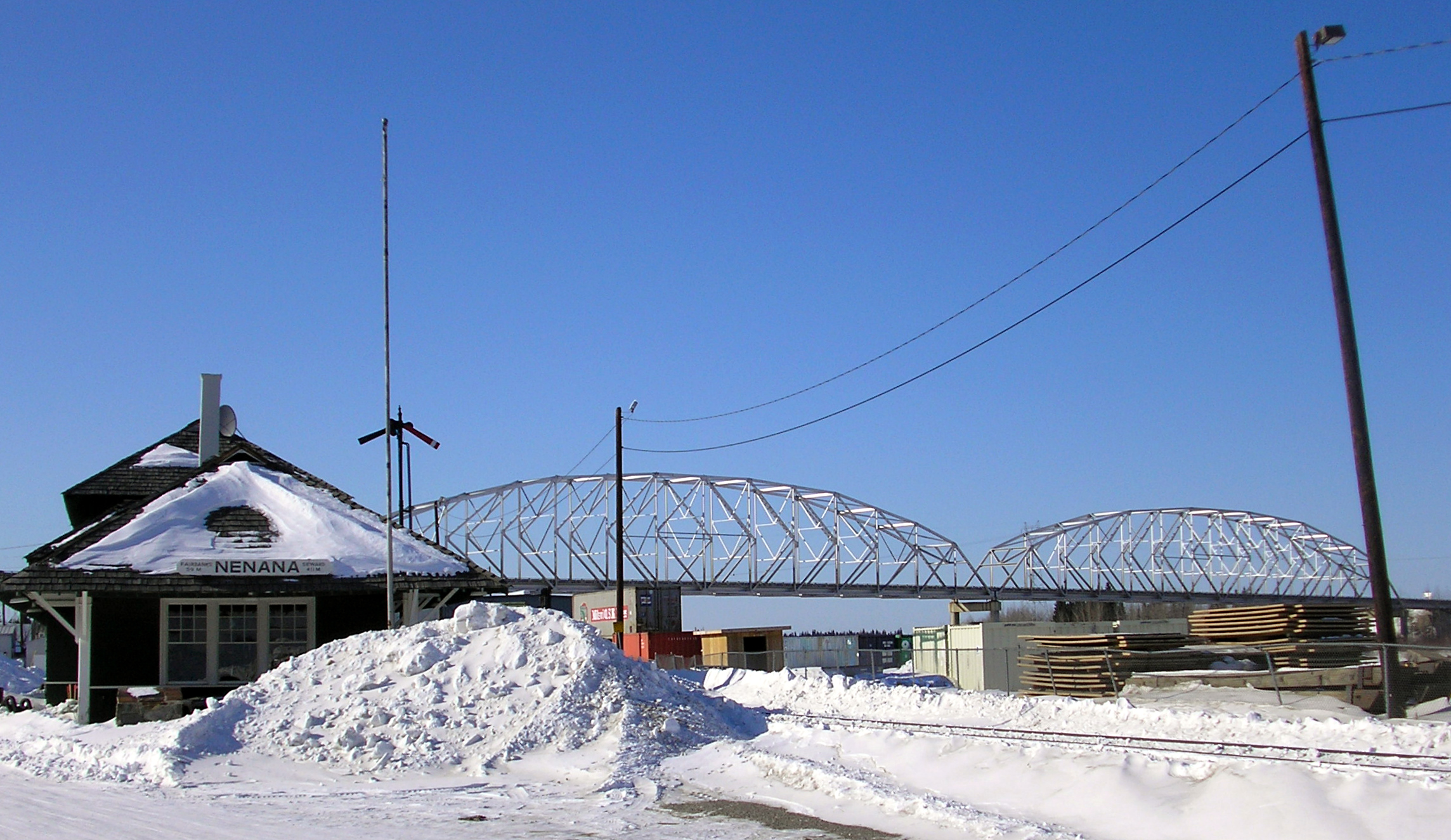 The Nenana, Alaska train station and the distinctive George Parks Highway bridge over the Tanana River.